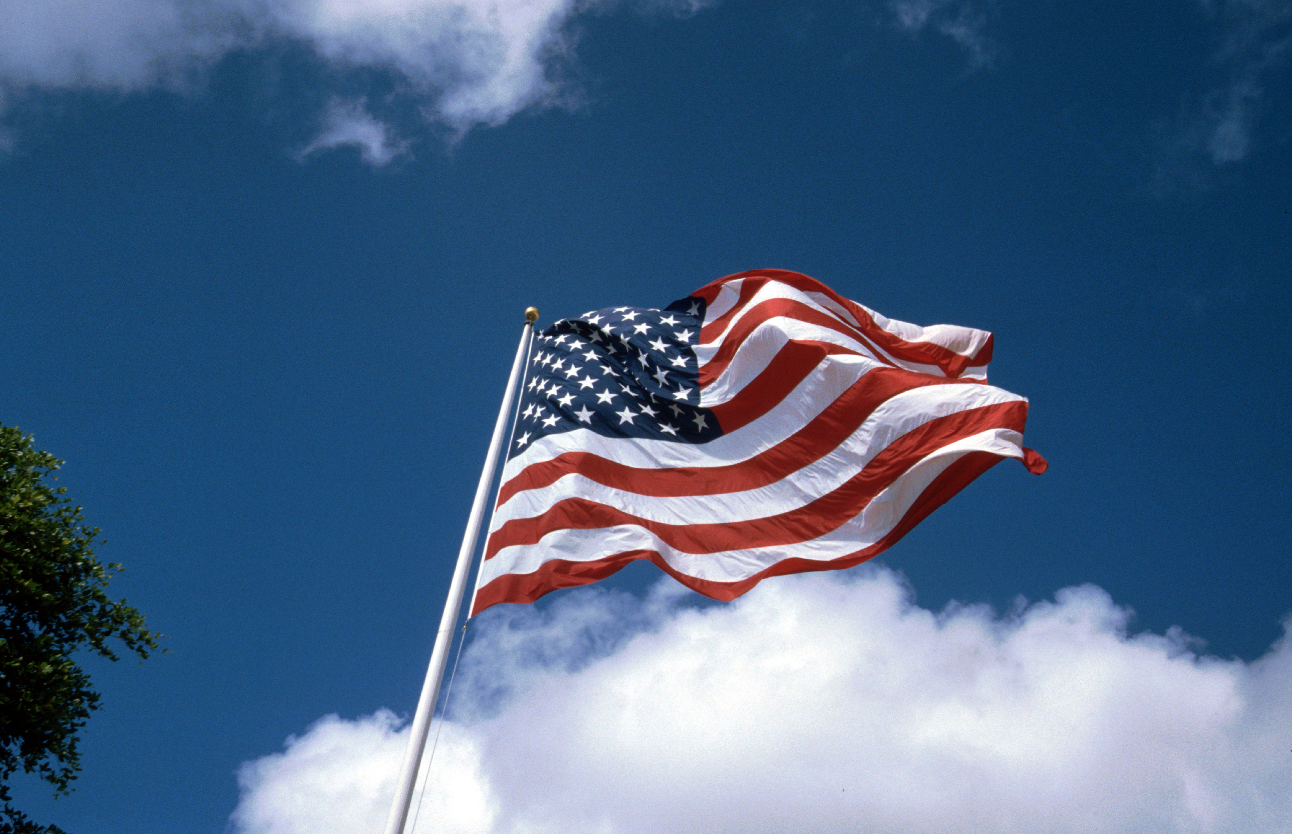 USA Flag, Miami FL 1992